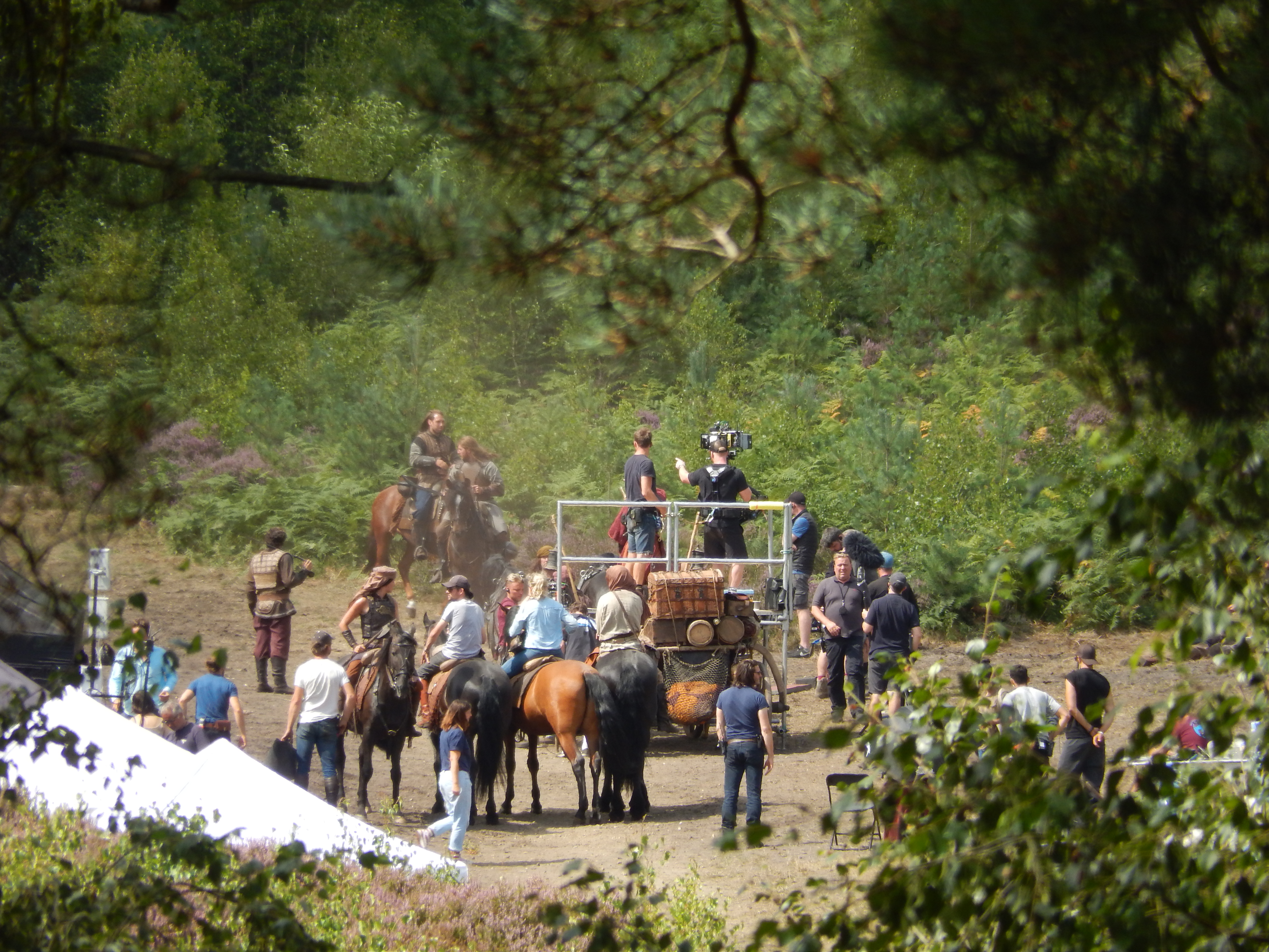 Filming for the movie The Old Guard, at the Bourne Woods, Farnham, Surrey.